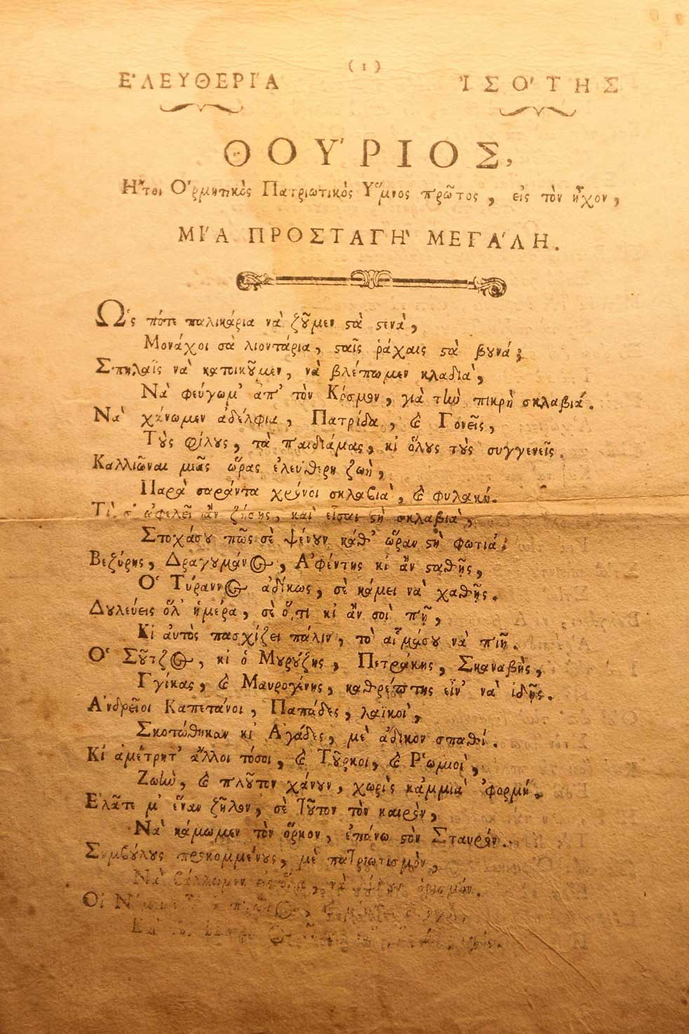 Thurios, a 1797 revolutionary poem by Rigas Velestinlis. Page dates from 1798. Hosted by the library of the Athens Academy